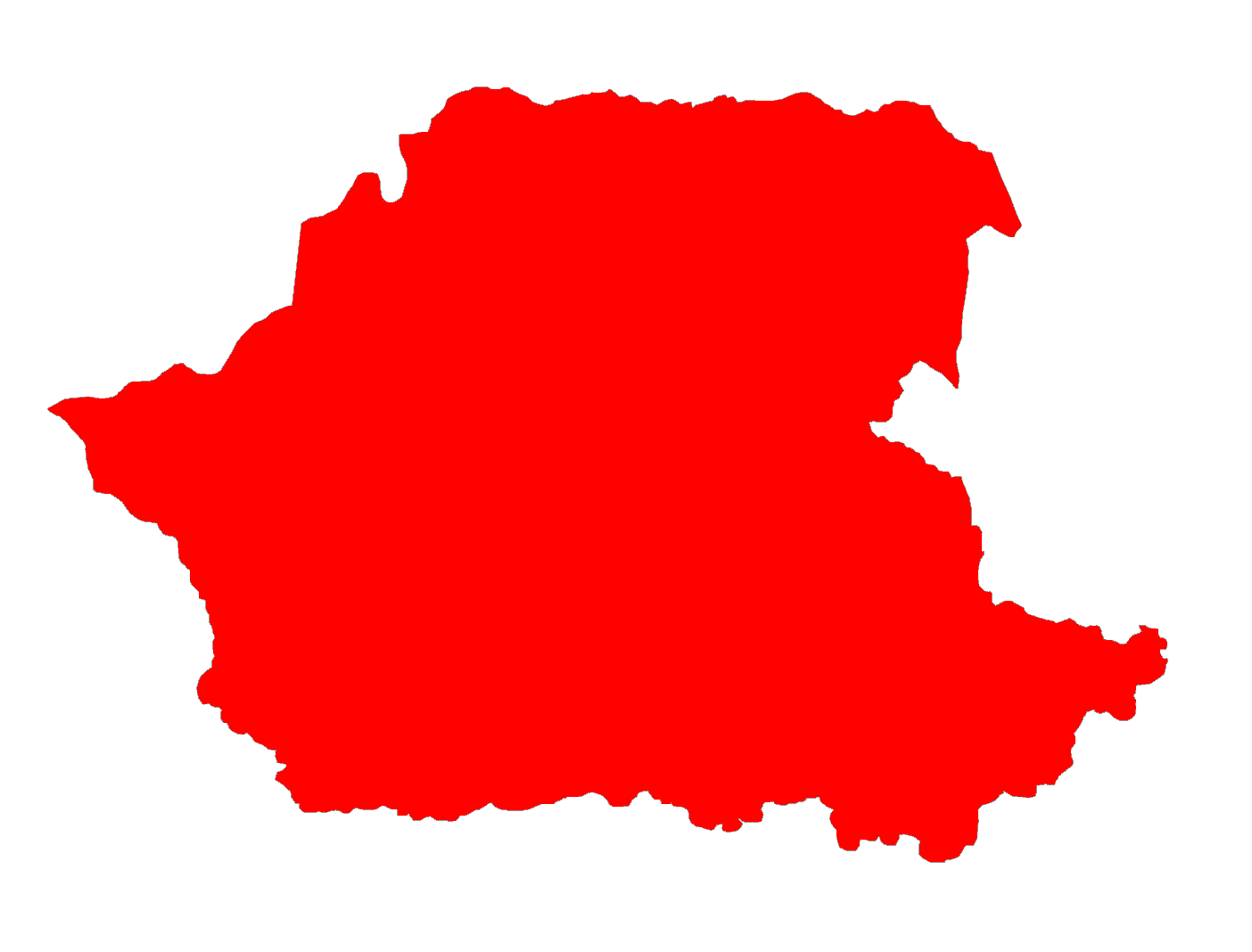 neighborhood/district of Santa Maria, Rio Grande do Sul